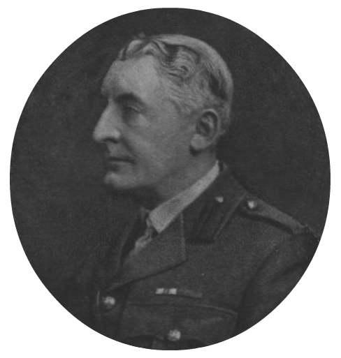 Francis Bennett-Goldney (1865-1918), MP, in a photograph published following his death in the First World War.